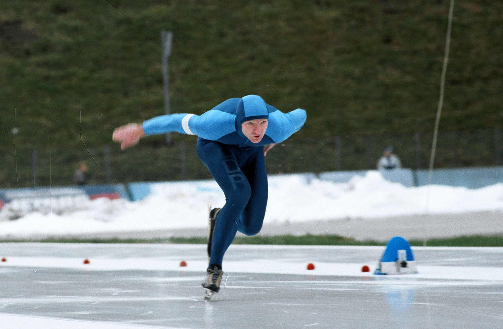 André Hoffmann is a former German speedskater